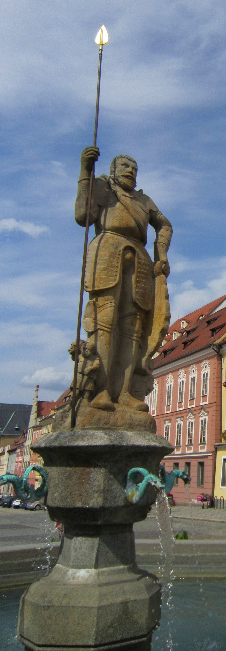 Statue of Roland in Cheb (Eger)